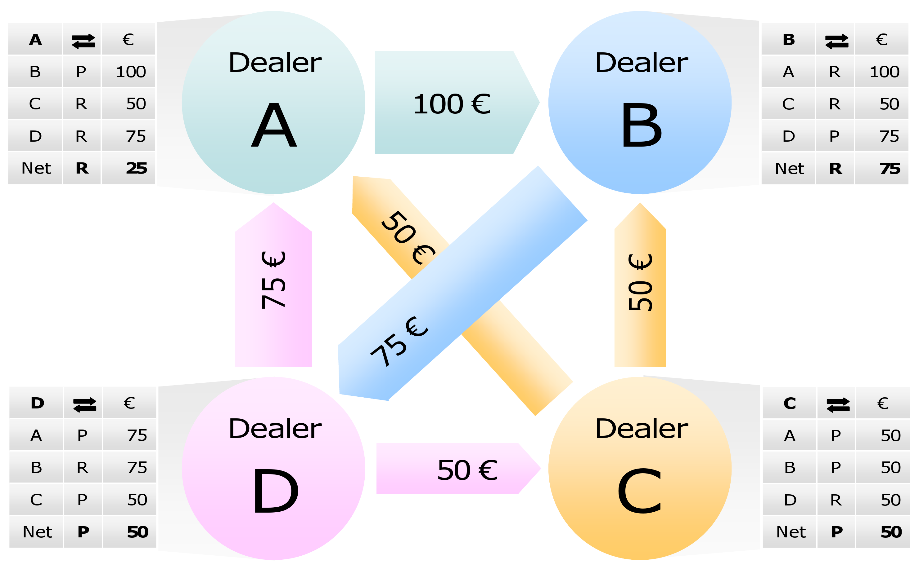 Multilateral trades between four traders before portfolio compression.